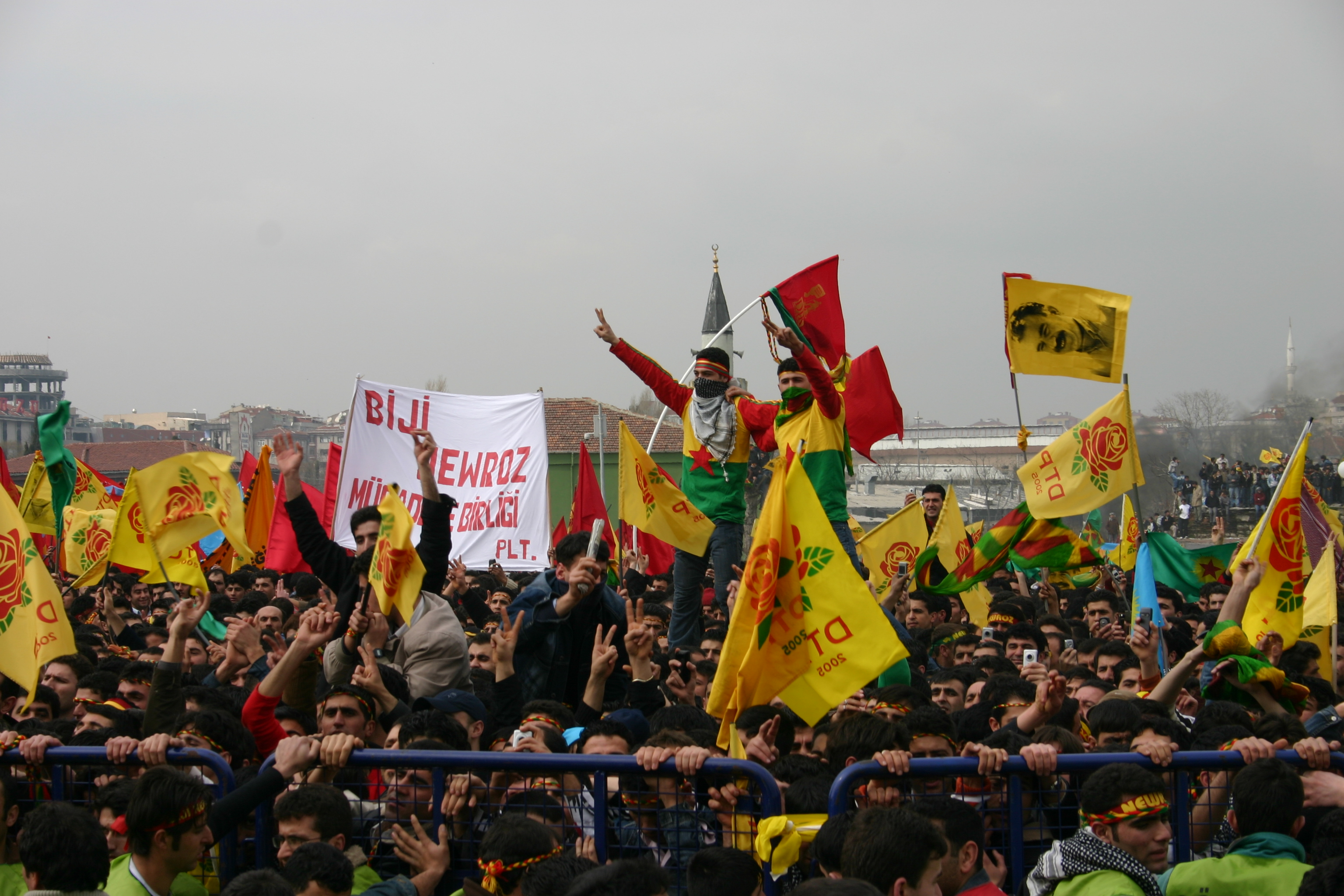 Newroz celebration in Istanbul. Photo by Bertil Videt 2006.